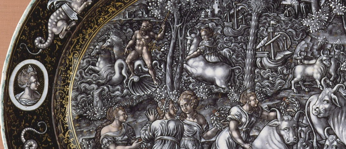 France, Limoges, circa 1560 Furnishings; Serviceware Grisaille enamel, flesh tones, touches of color, and gold on copper William Randolph Hearst Collection (48.2.17) Decorative Arts and Design Currently on public view: Ahmanson Building, floor 3